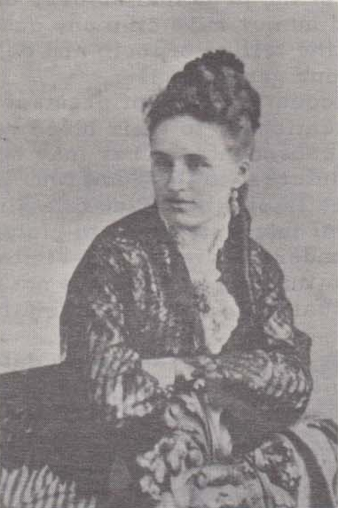 Screenshot-2017-10-1 SIGNED Sterling Lord Victorian Vignettes Eda Hurd Lord 1963 Burlington IA eBay